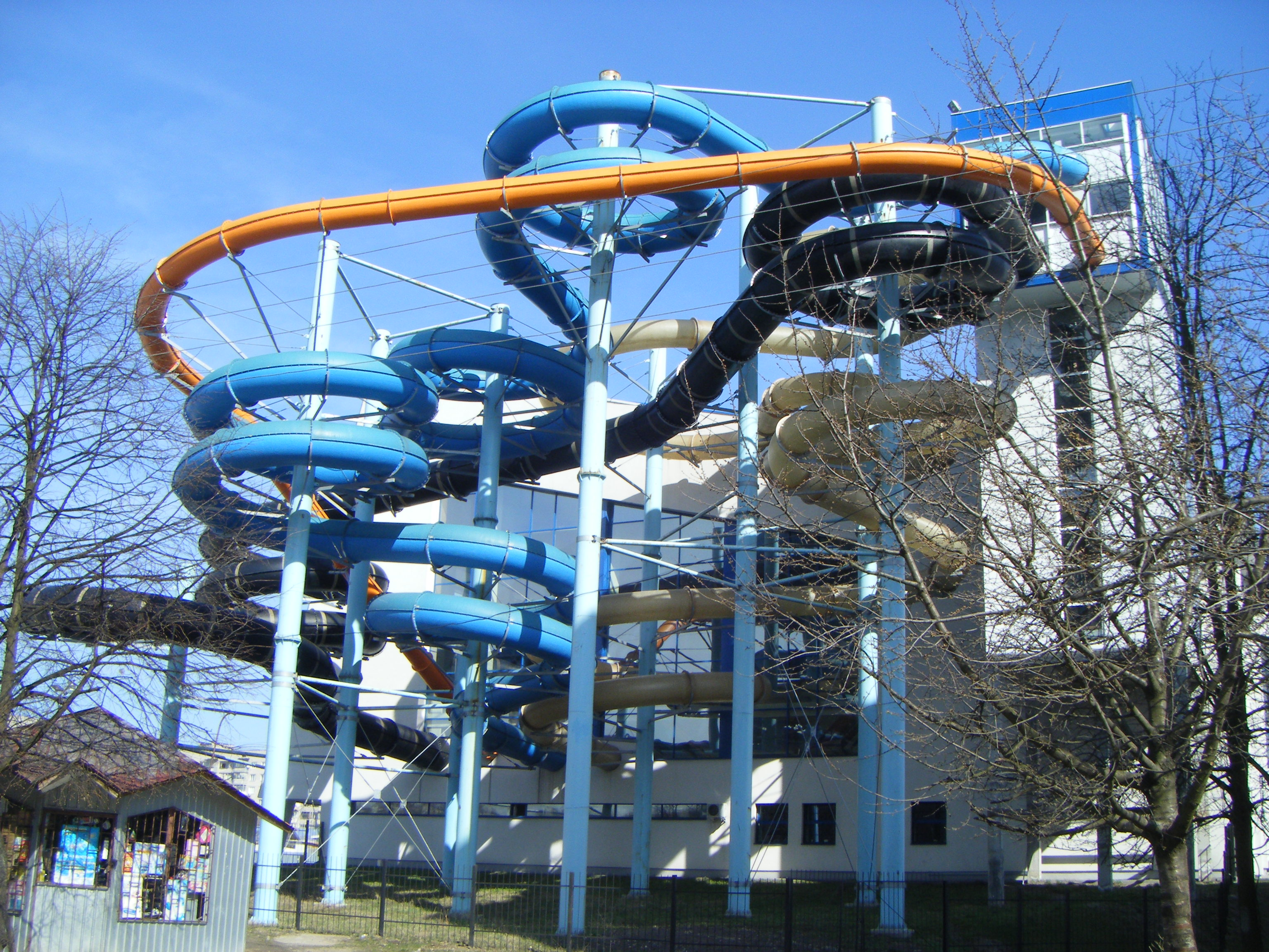 Waterpark in Lviv, Ukraine